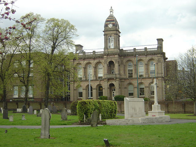 Nottingham College of Art building, Waverley Street